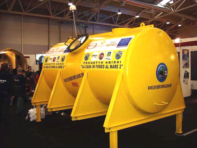 The image shows one of the underwater stations of Progetto Abissi in 2007